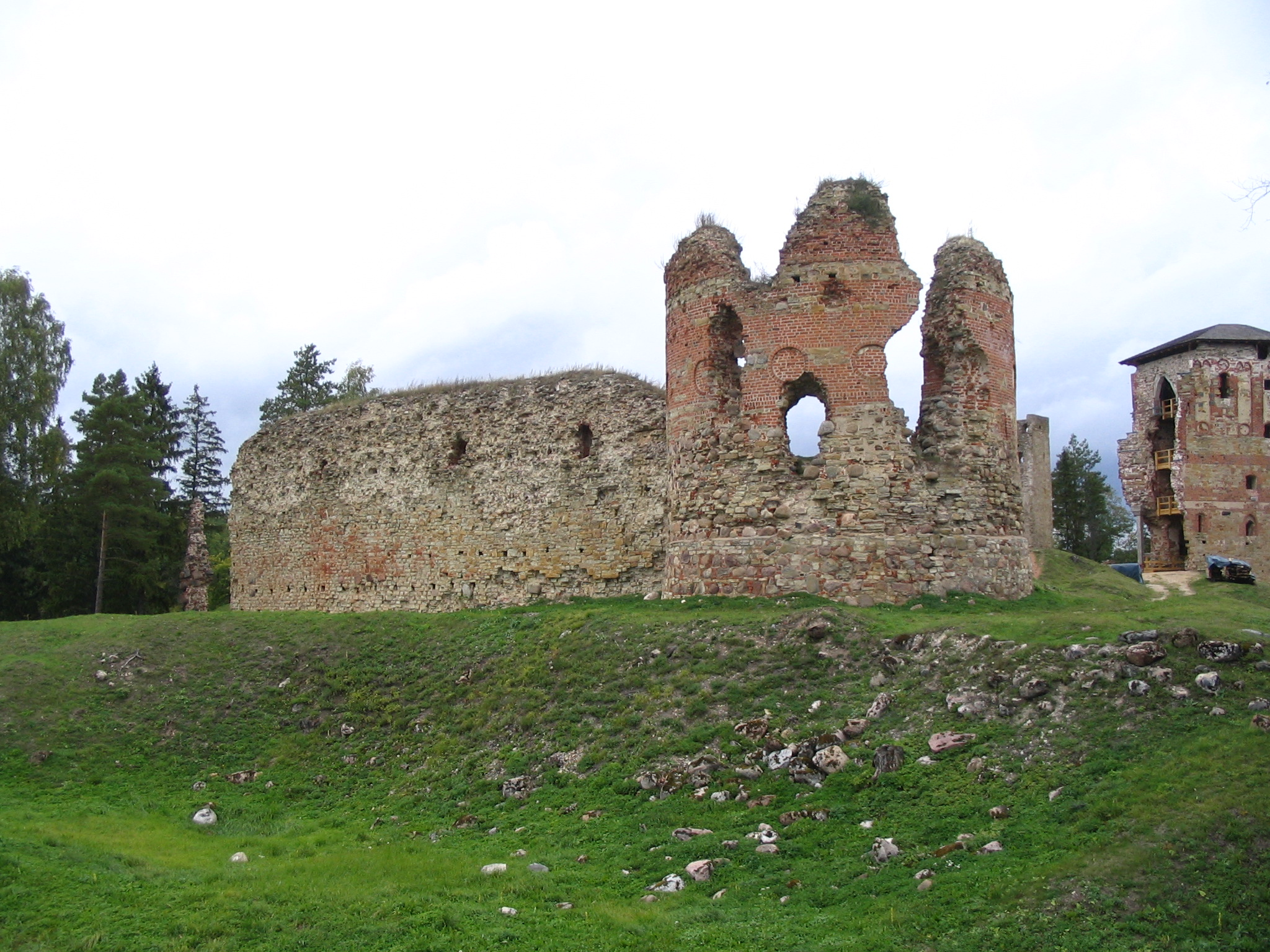 Vasteseliina Castle, view from south. Moat, southern wall, ruins of SE tower and the renovated NE tower (at right).